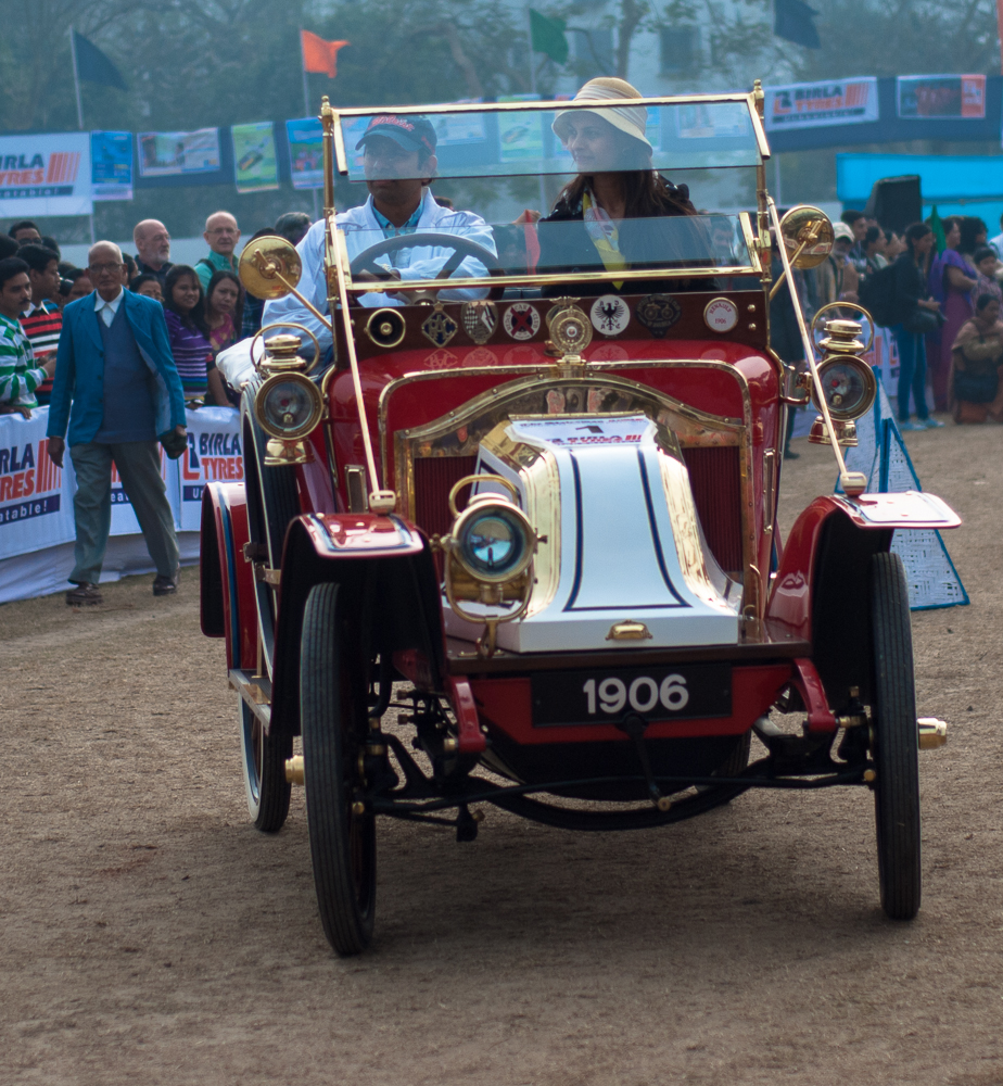 Renault Frères 1906: 8HP/2 Cylinder